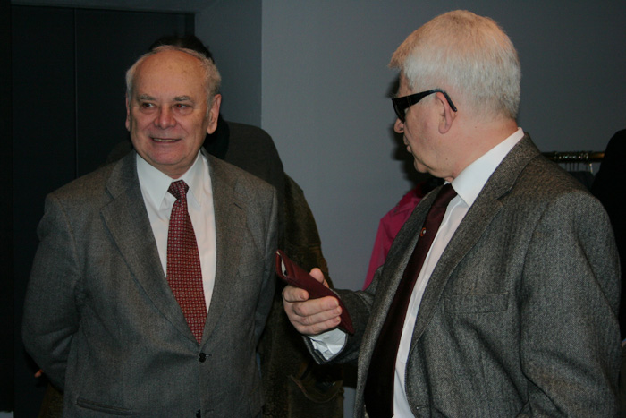 GM Lajos Portisch with former world champion GM Boris Spassky at the Reykjavik Open, March 2008.